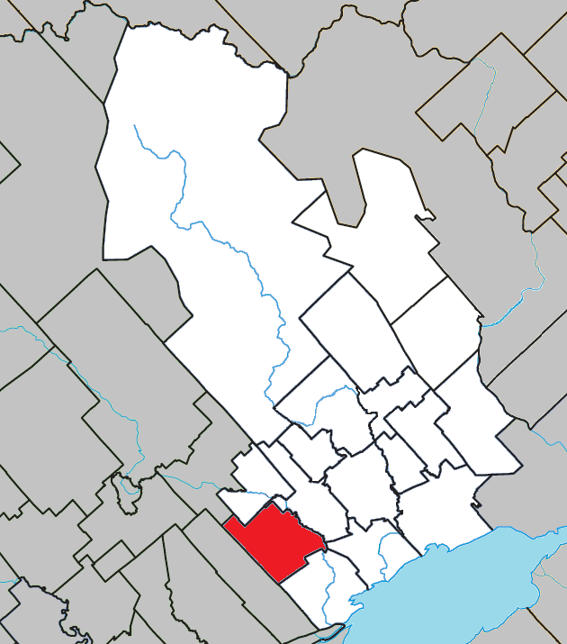 Location of Saint-Justin, Quebec within Maskinongé Regional County Municipality.